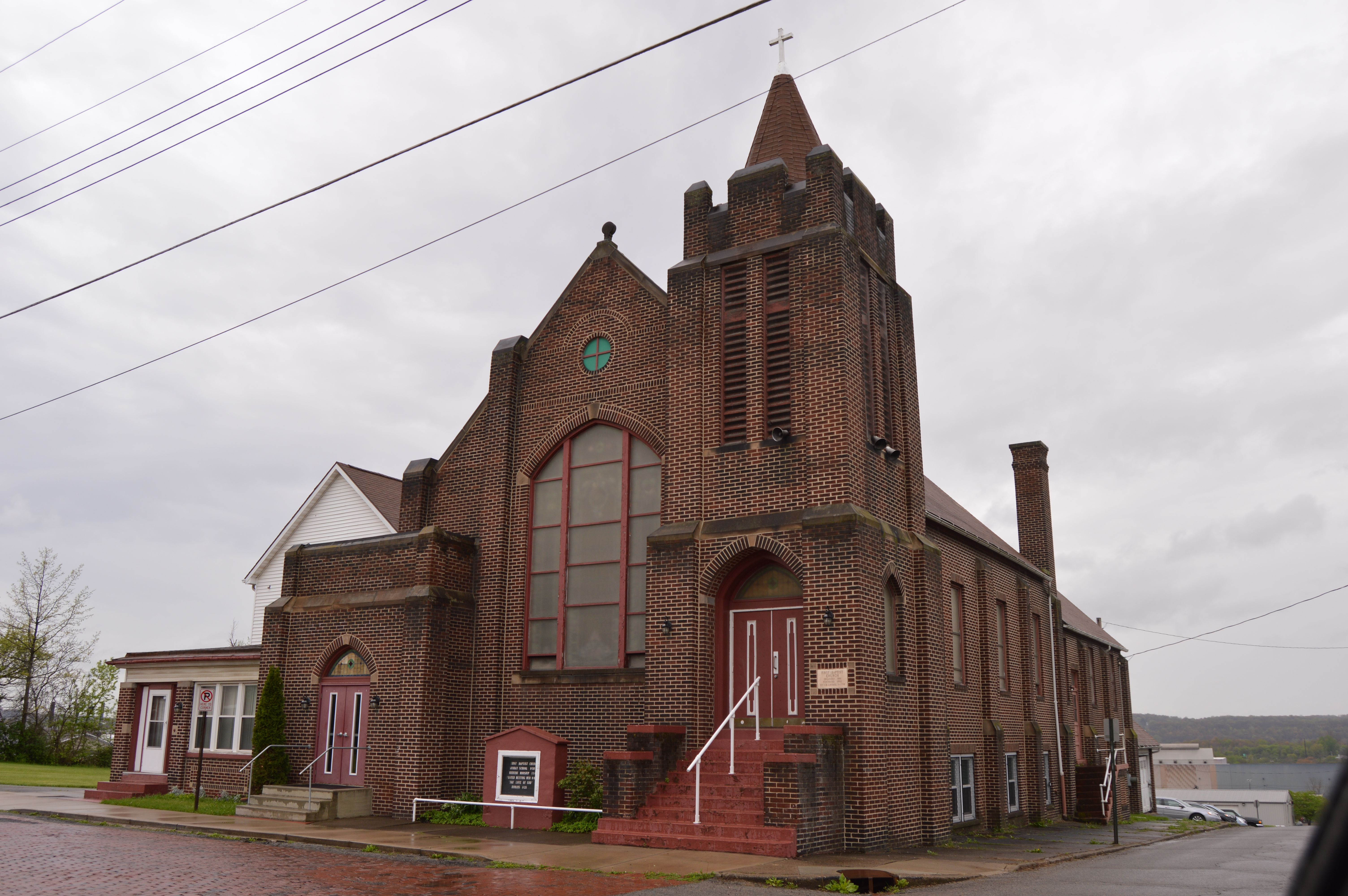 Front of the First Baptist Church of Farrell, located at the intersection of French and Darr Streets in Farrell, Pennsylvania, United States.